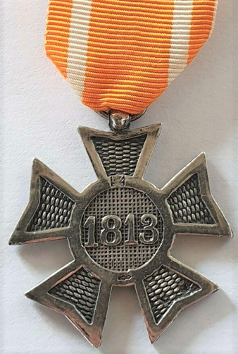 Dutch Silver Memorial Cross for Napoleonic Wars, 1813-15, obverse. Founded in 1865.